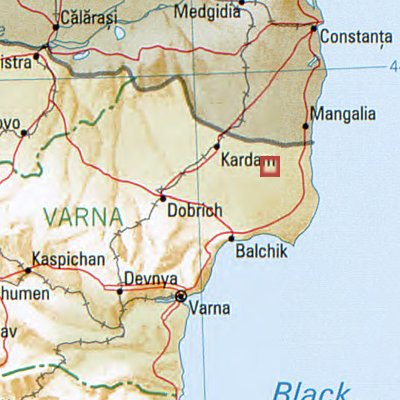 Bulgaria 1994 CIA map, city: part of the map Bulgaria_1994_CIA_map.jpg This image is in the public domain because it contains materials that originally came from the United States Central Intelligence Agency's World Factbook.